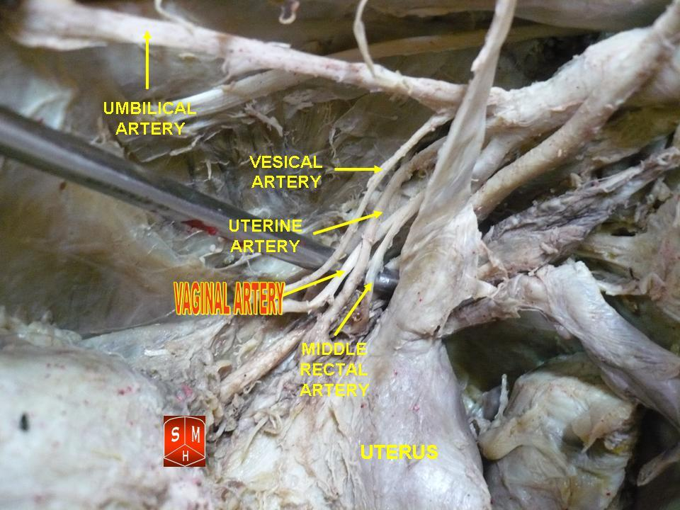 Anatomical preparations